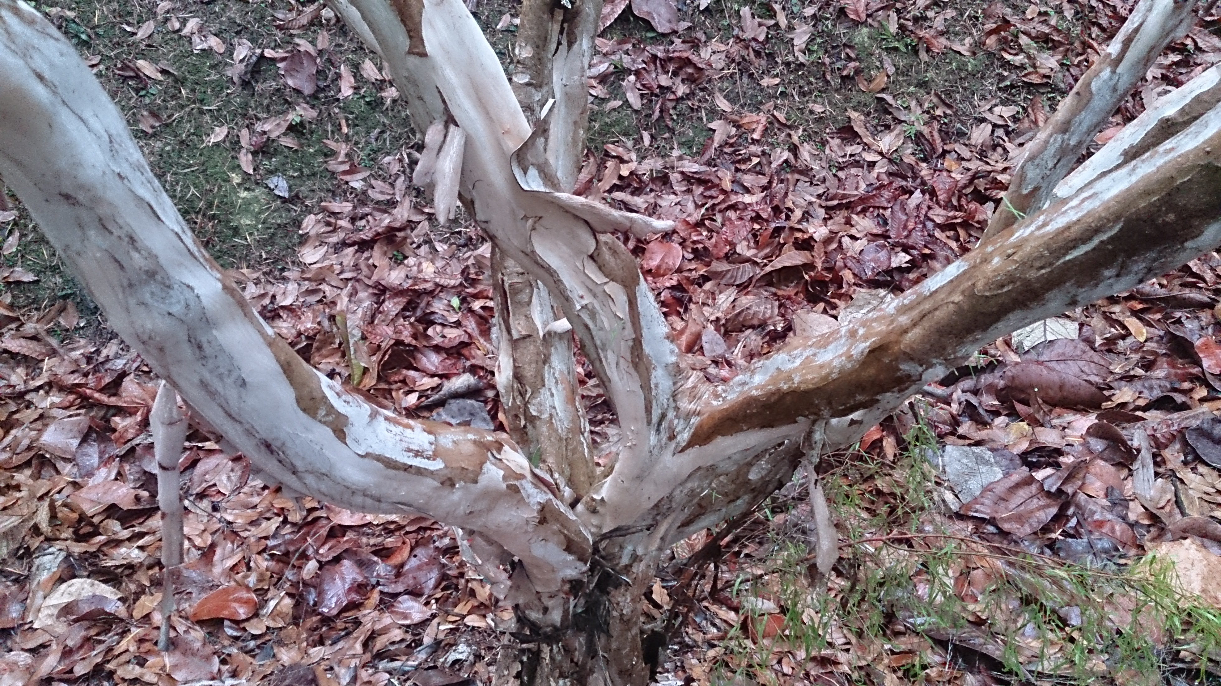 Leptospermum madidum. Common name: Weeping tea tree.